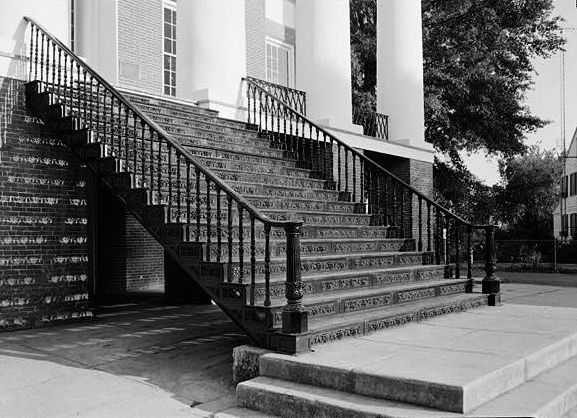 Detail showing cast iron steps from Windsor Ruins. Stairway now located at Oakland Chapel, Alcorn State University, Claiborne County, Mississippi, USA